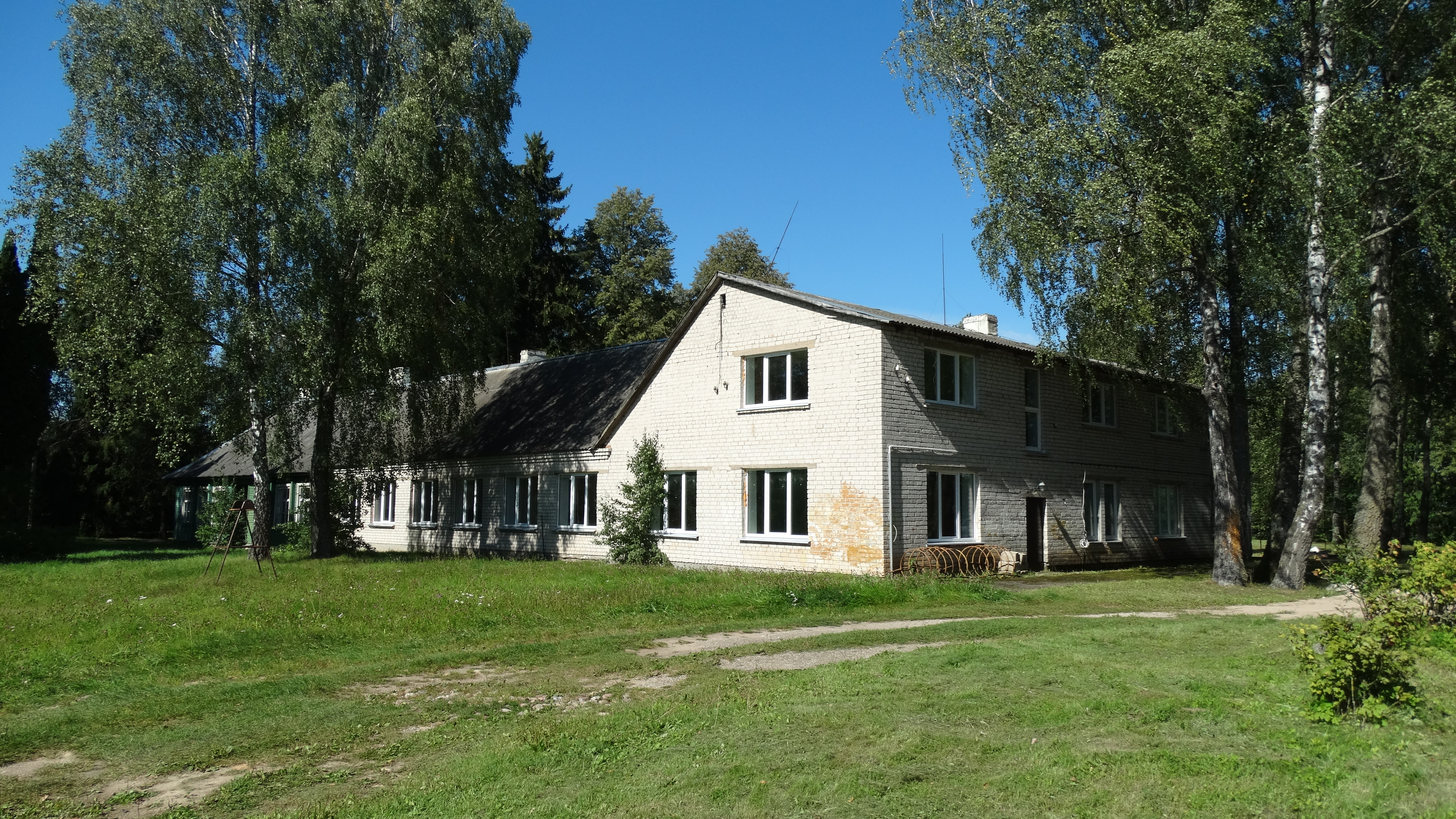 Basic School, Ažulaukė, Vilnius district, Lithuania